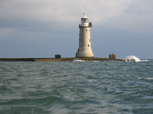 Lighthouse on Plymouth Breakwater. This lighthouse marks the Western entrance to Plymouth Sound